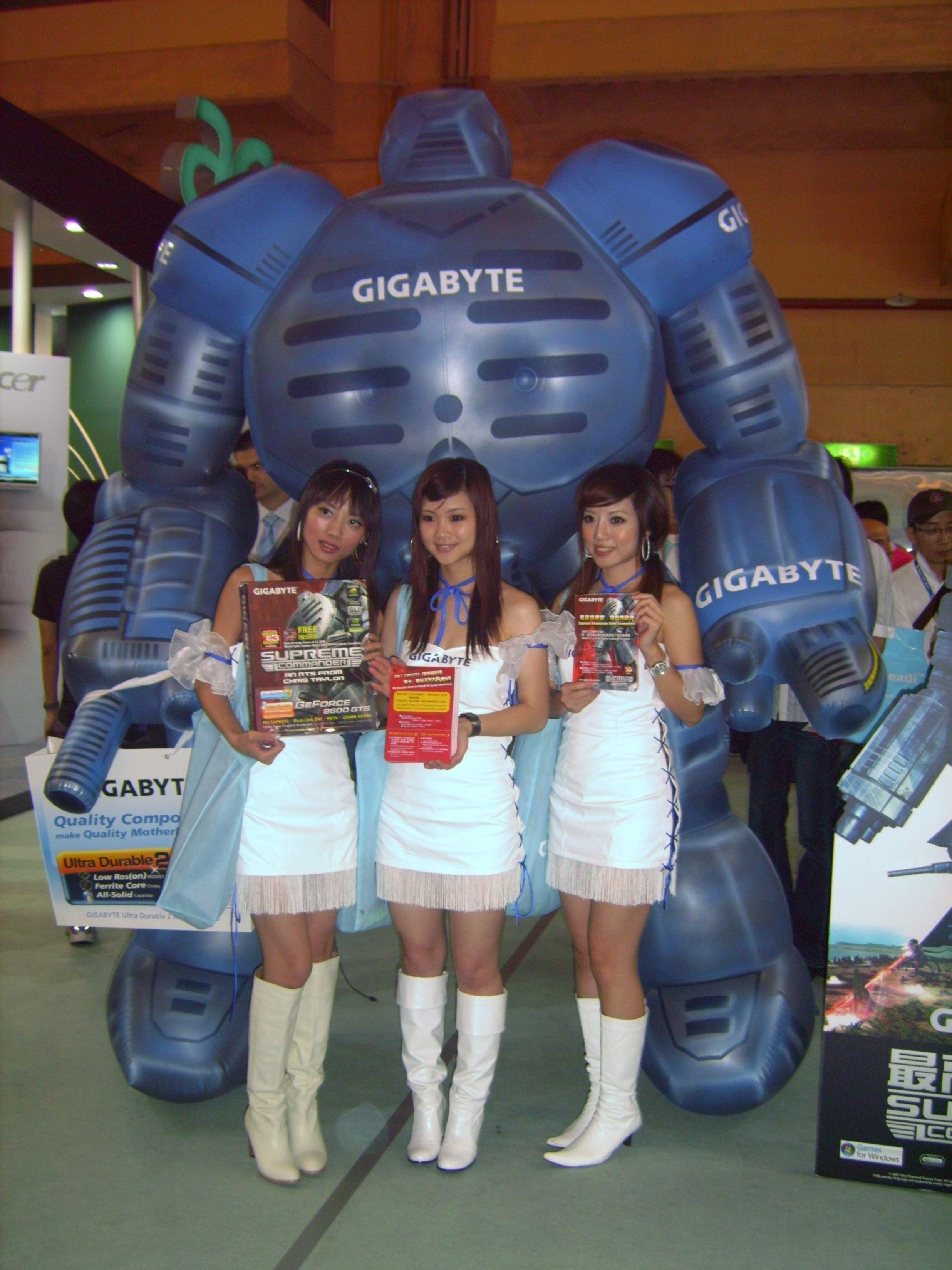 2007 COMPUTEX Taipei: The mascot of Gigabyte Ultra Durable 2 and show ladies of Gigabyte Technology.